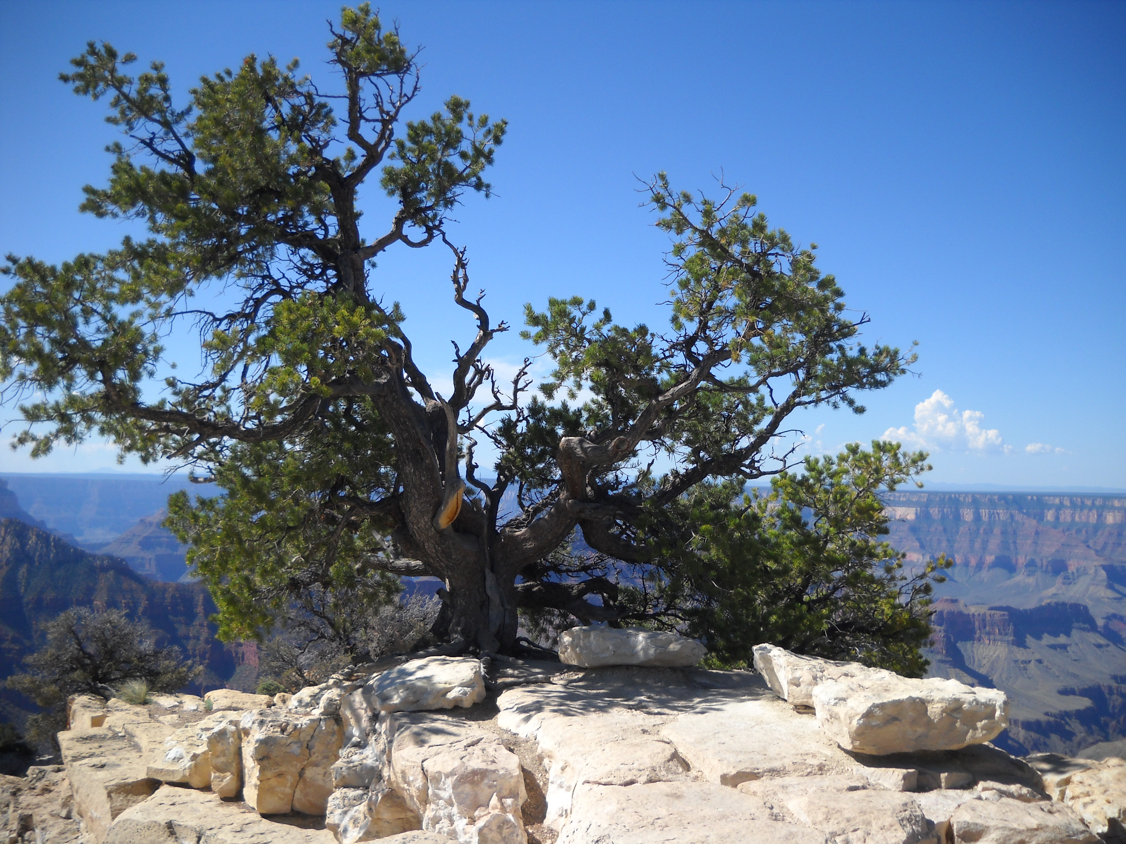 Pinus edulis old tree. Grand Canyon North Rim, Arizona.